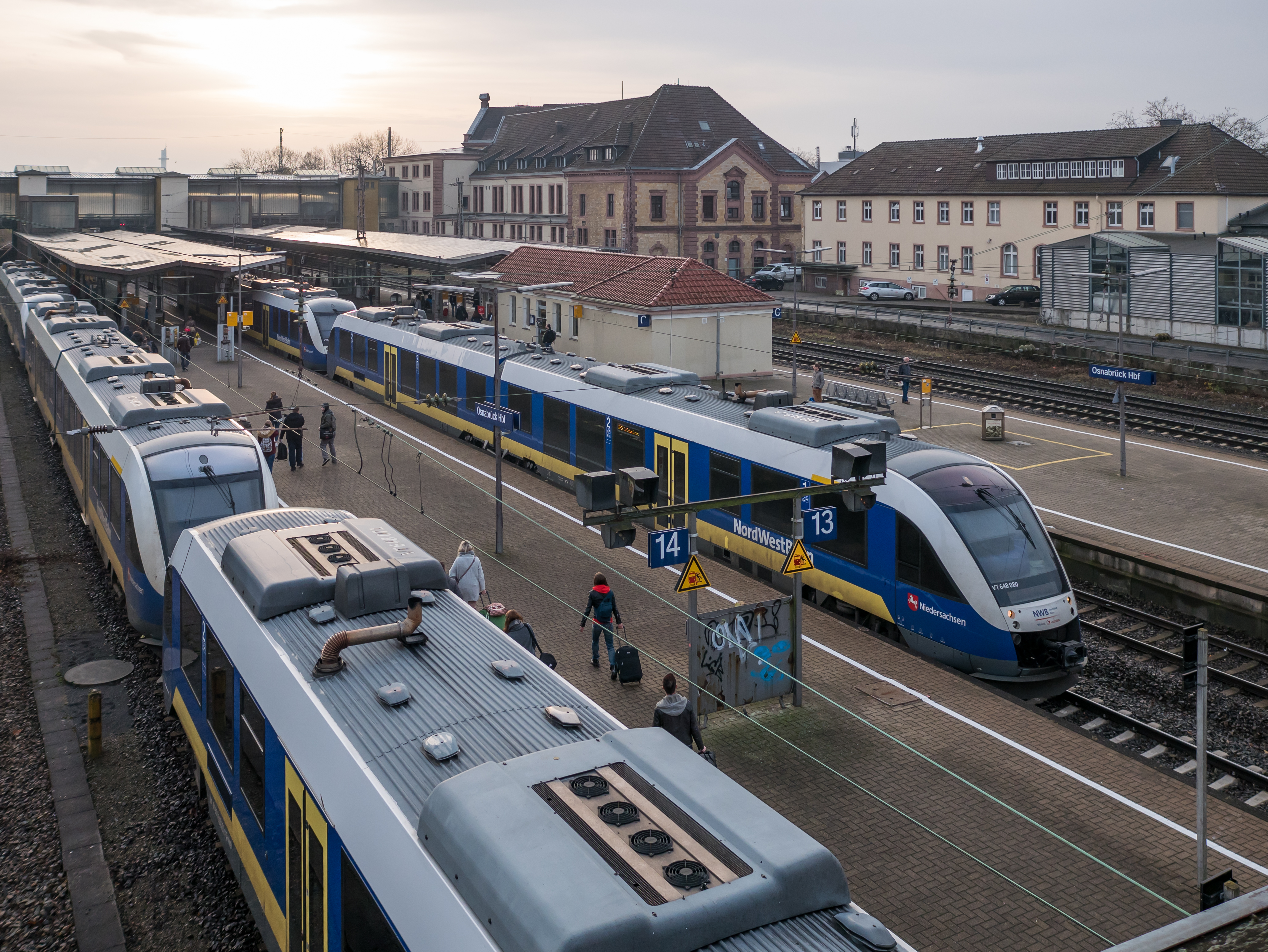 Osnabrück central station, trains of the NordWestBahn railway company at platform 13 and 14. Lower Saxony, Germany